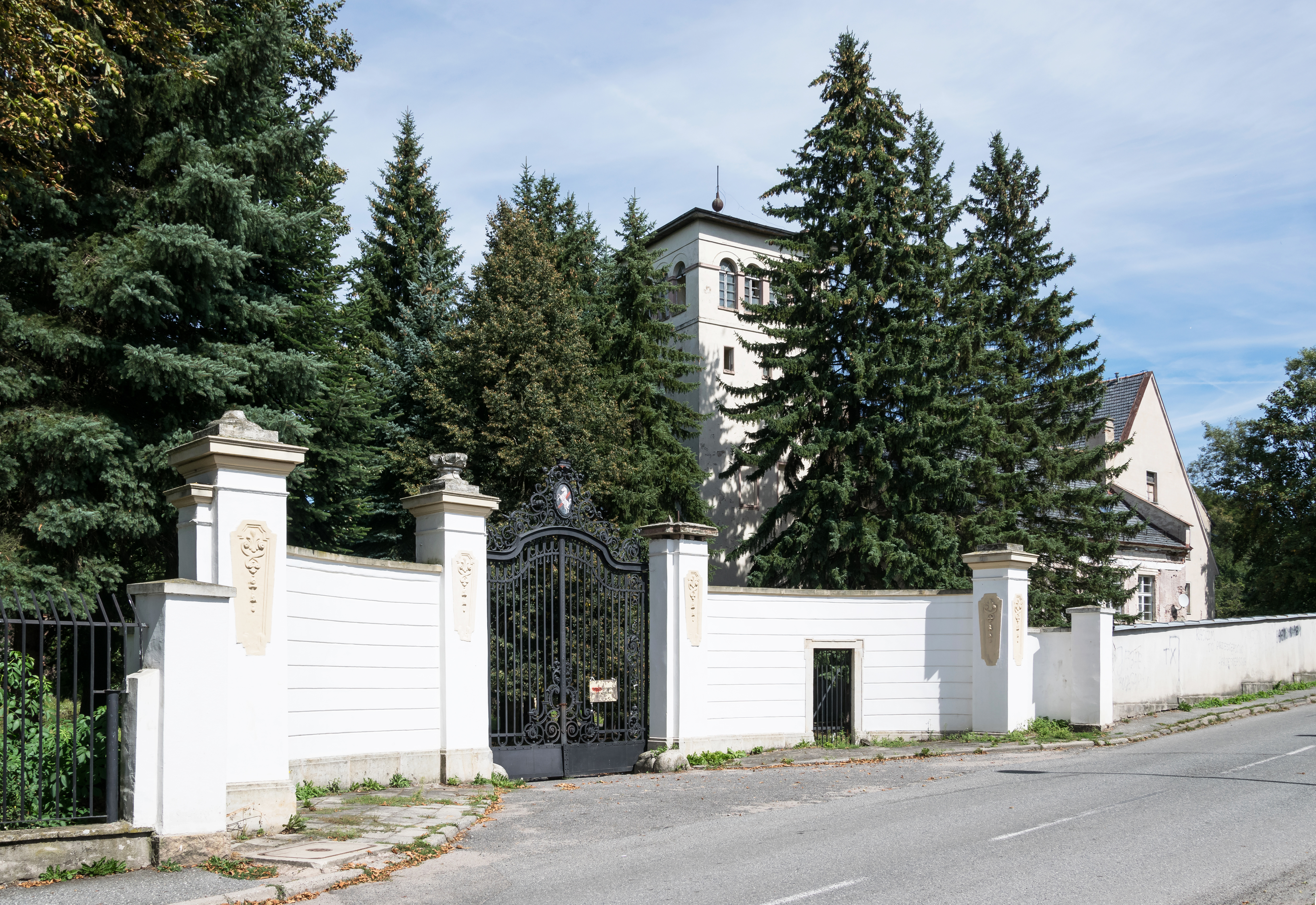 Park and palace in Jeleniów Wikidata has entry Q30048613 with data related to this item.